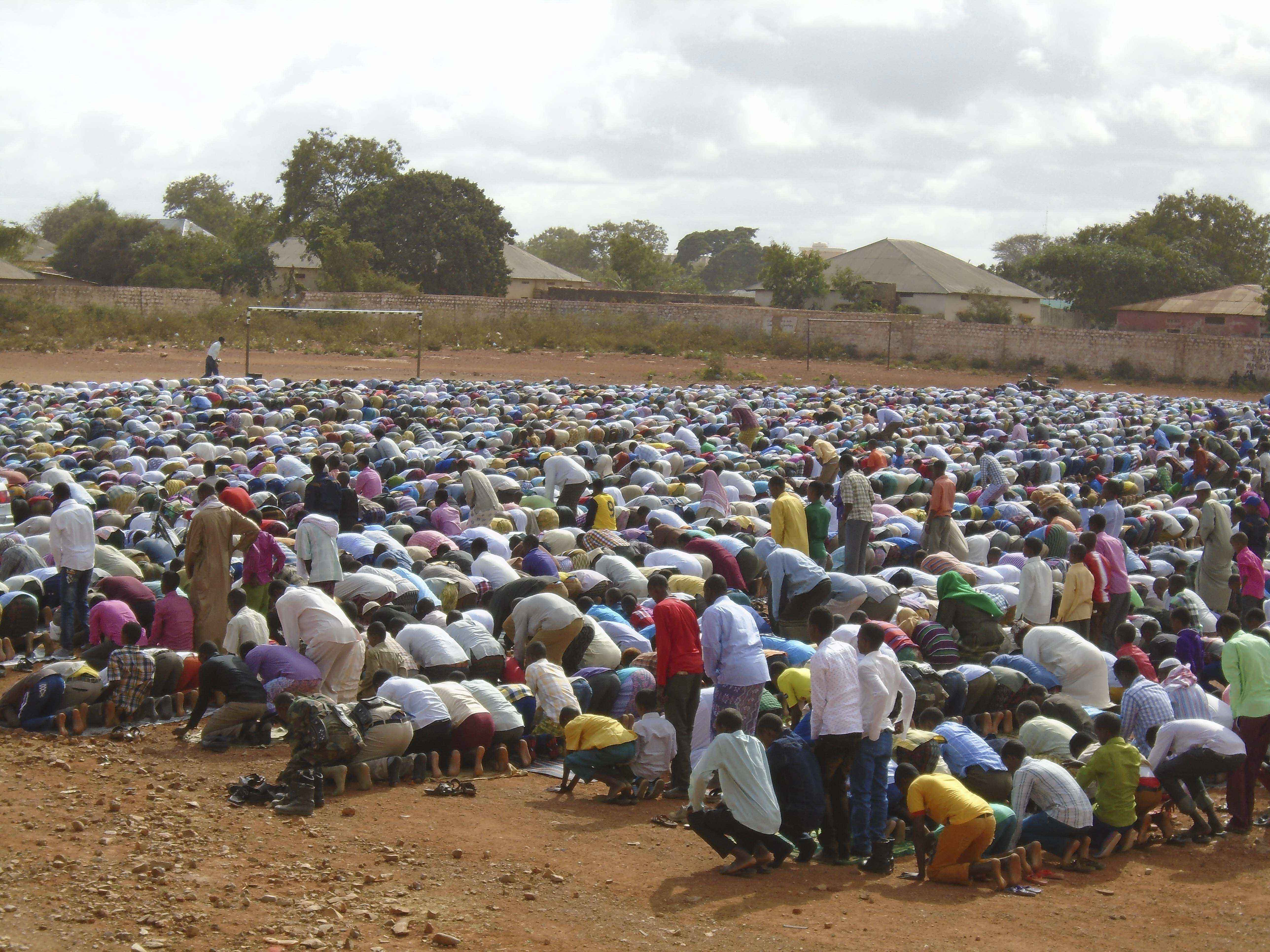 Residents of Baidoa pray at the stadium during the celebrations to mark Eid Al-Fitri in Somalia on July 17, 2015. AMISOM Photo/ Abdikarim Mohamed